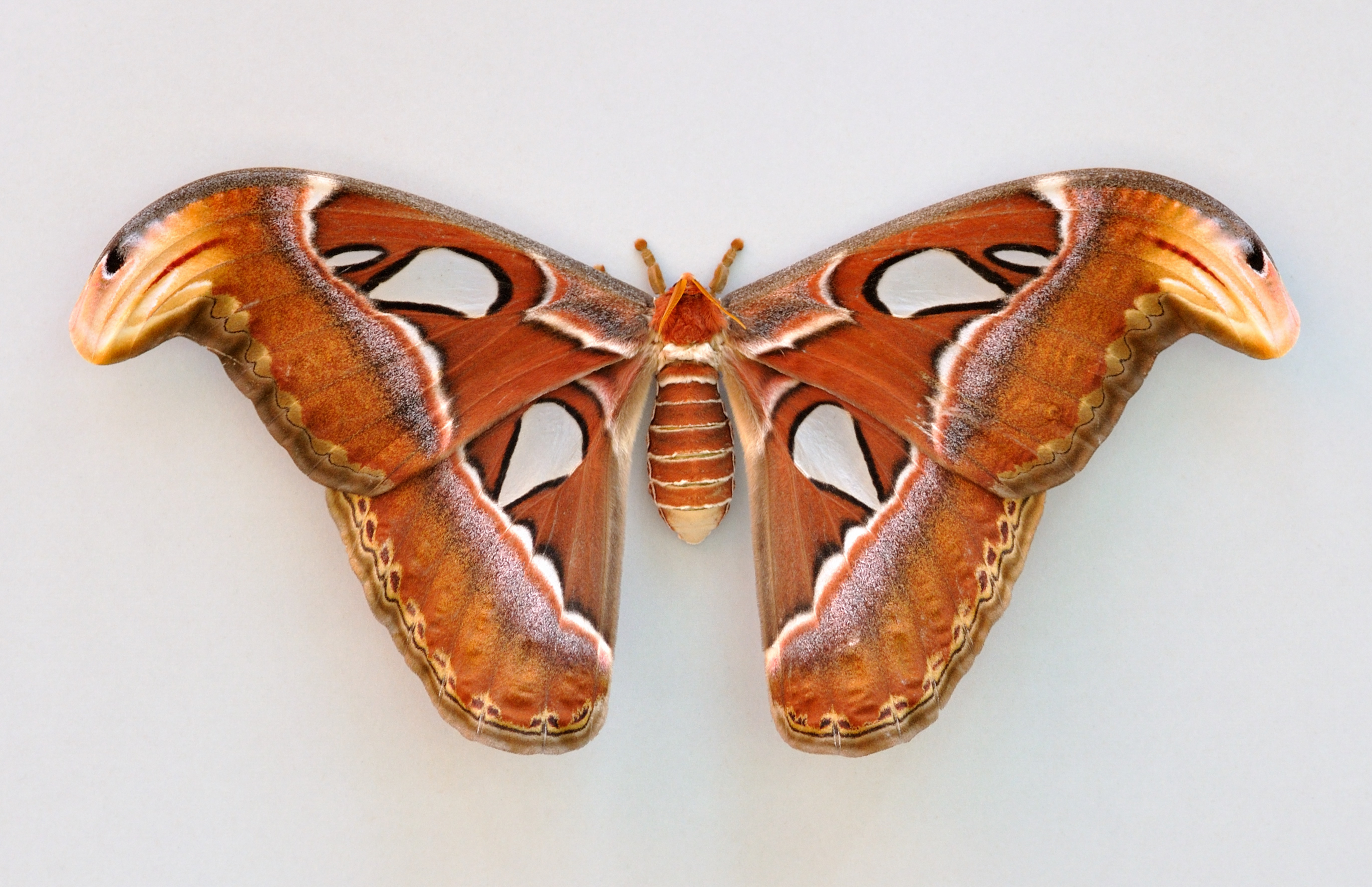 Female Atlas Moth (Attacus atlas) in the Wilhelma, Stuttgart, Germany. This is a live animal sitting high on the back wall of the insectarium laying eggs (see second image). The wingspan is roughly 25 cm.